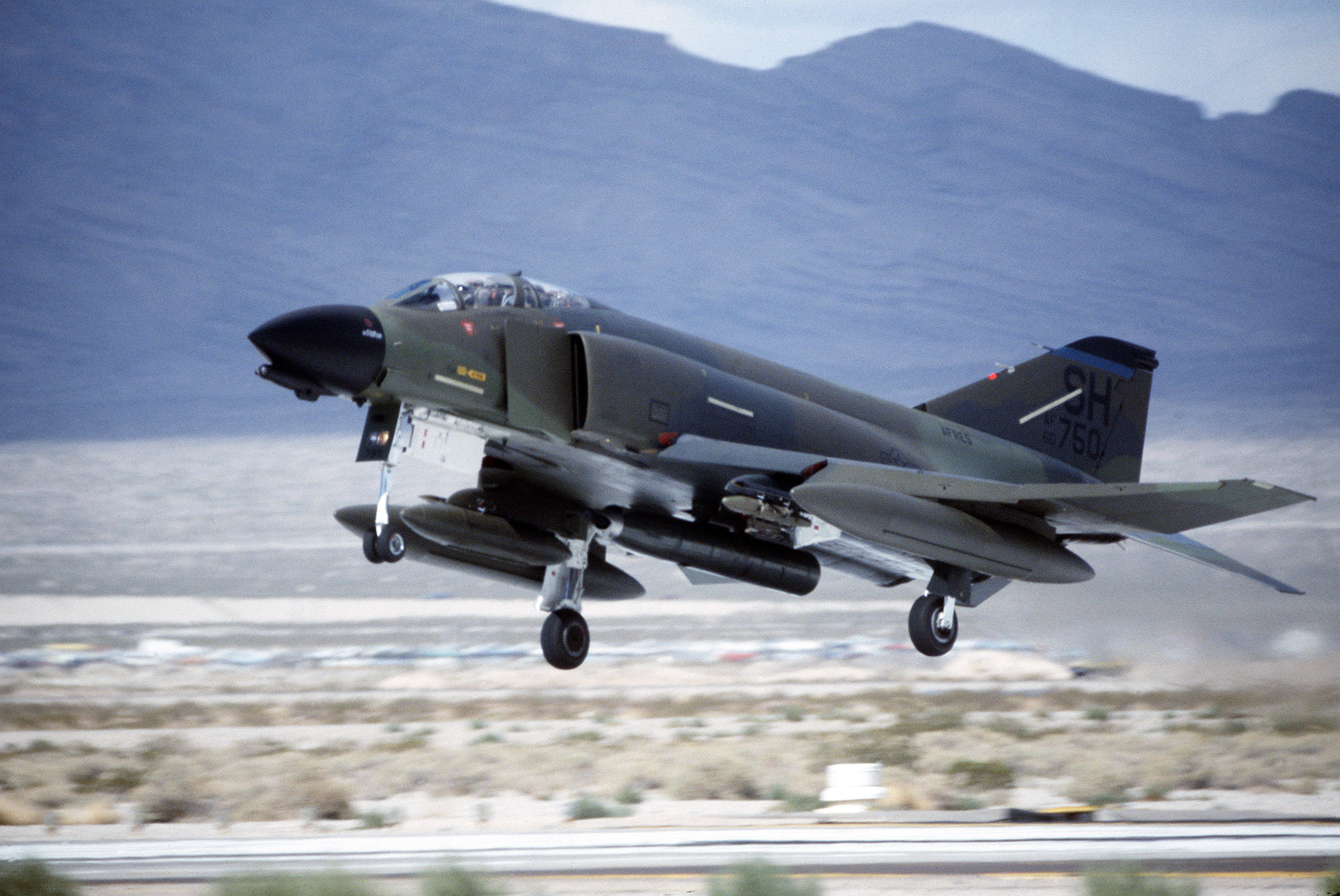 A U.S. Air Force McDonnell F-4D-31-MC Phantom II (s/n 66-7750) of the 465th Tactical Fighter Squadron, 301st Tactical Fighter Wing, U.S. Air Force Reserve, landing at Nellis Air Force Base, Nevada (USA), during exercise "Gunsmoke '85" on 6 October 1985. Note that the aircraft carries a 20 mm gun pod on the centerline station. This aircraft was sold to South Korea in 1987.